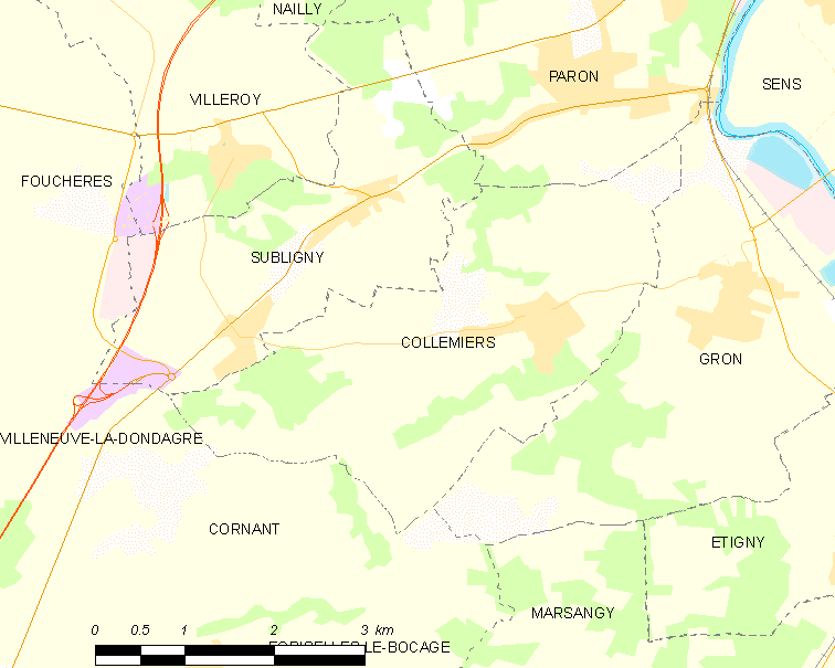 Map of French municipality Collemiers